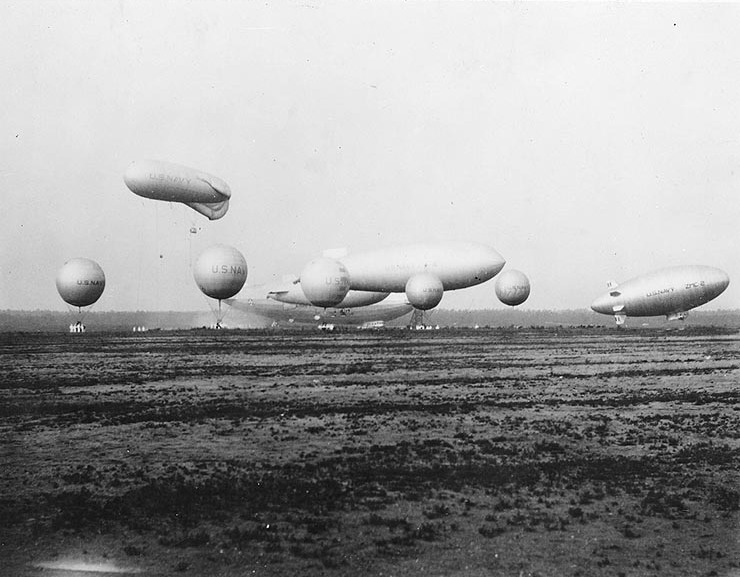 U.S. Navy blimps at the Naval Air Station in Lakehurst, New Jersey (USA), during what appears to be a demonstration, in 1930-1931. Among the craft present are a kite balloon (upper craft at left), five free balloons, the USS Los Angeles (ZR-3) in the middle distance, blimp J-4 and and another J-class blimp in the center, and metalclad airship ZMC-2 at right.